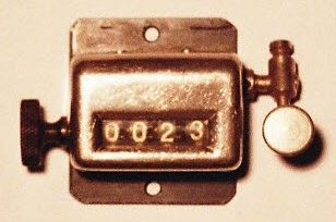 hand-operated mechanical counter